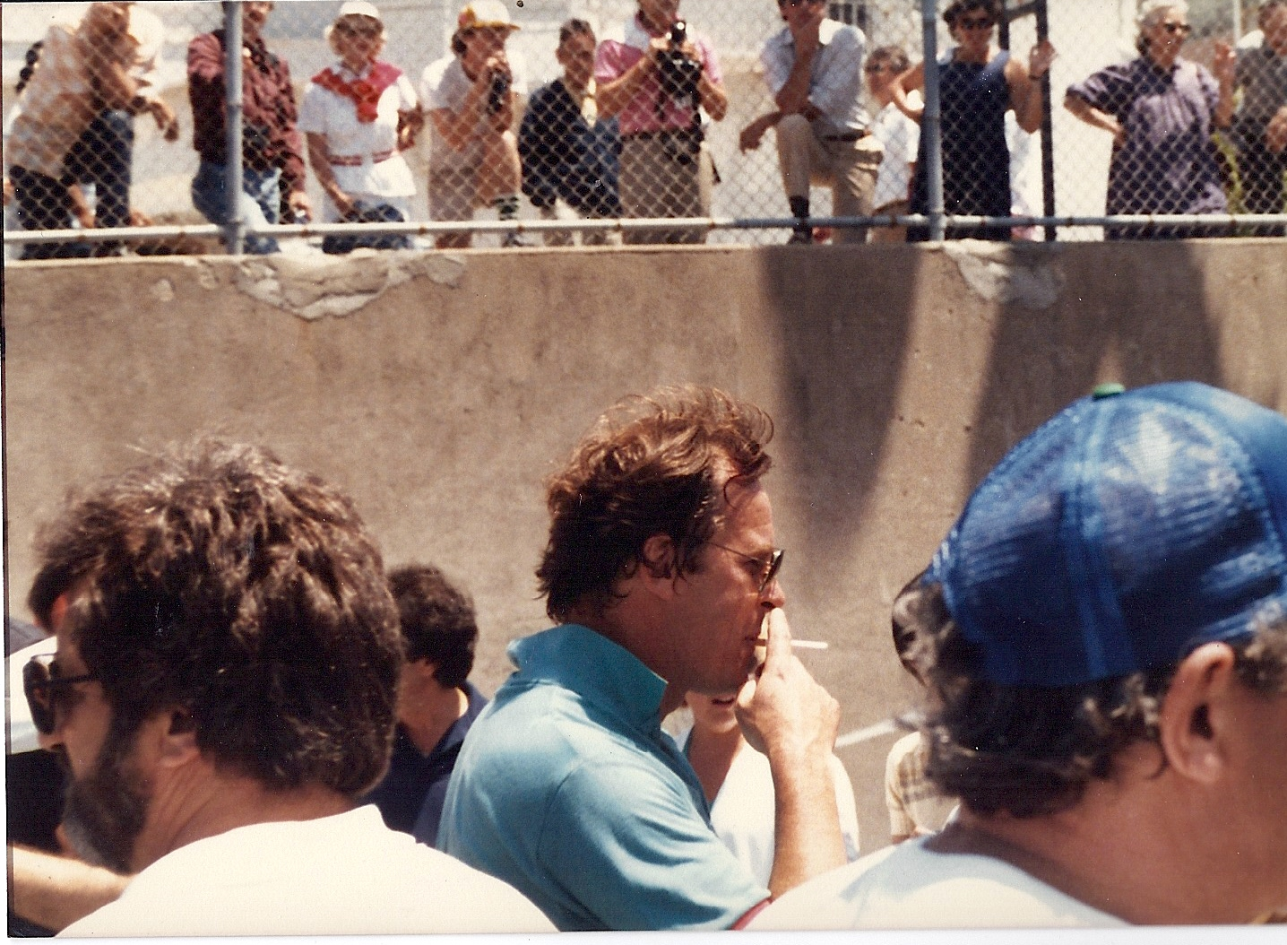 In July, 1984 when the Democratic National Convention was held in San Francisco, a challenge softball game took place at North Beach Playground (now known as Joe DiMaggio Playground) in San Francisco's North Beach. It pitted Les Lapins Sauvages, the house team for the Washington Square Bar and Grill (featuring Herb Caen at first base) against a pick-up team of national media notables, including Tom Brokaw (Catcher), Bryant Gumble (Third Base), Peter Jennings (Center Field) and Jeff Greenfield (Pitcher). Mario Cuomo, then Governor of New York showed up and, in a spirit of bipartisanship, took an at bat for both sides. He ended up getting a hit and scoring the winning run for the Lapins.